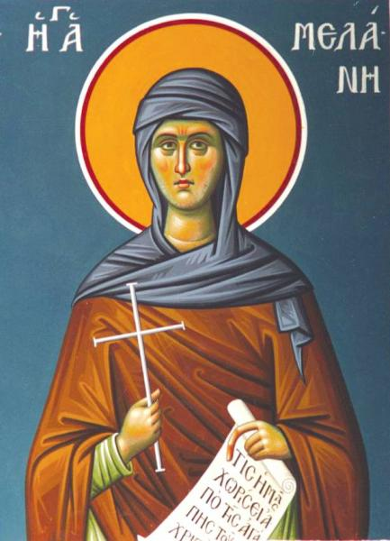 St. Melania of Rome (ortodox icon)